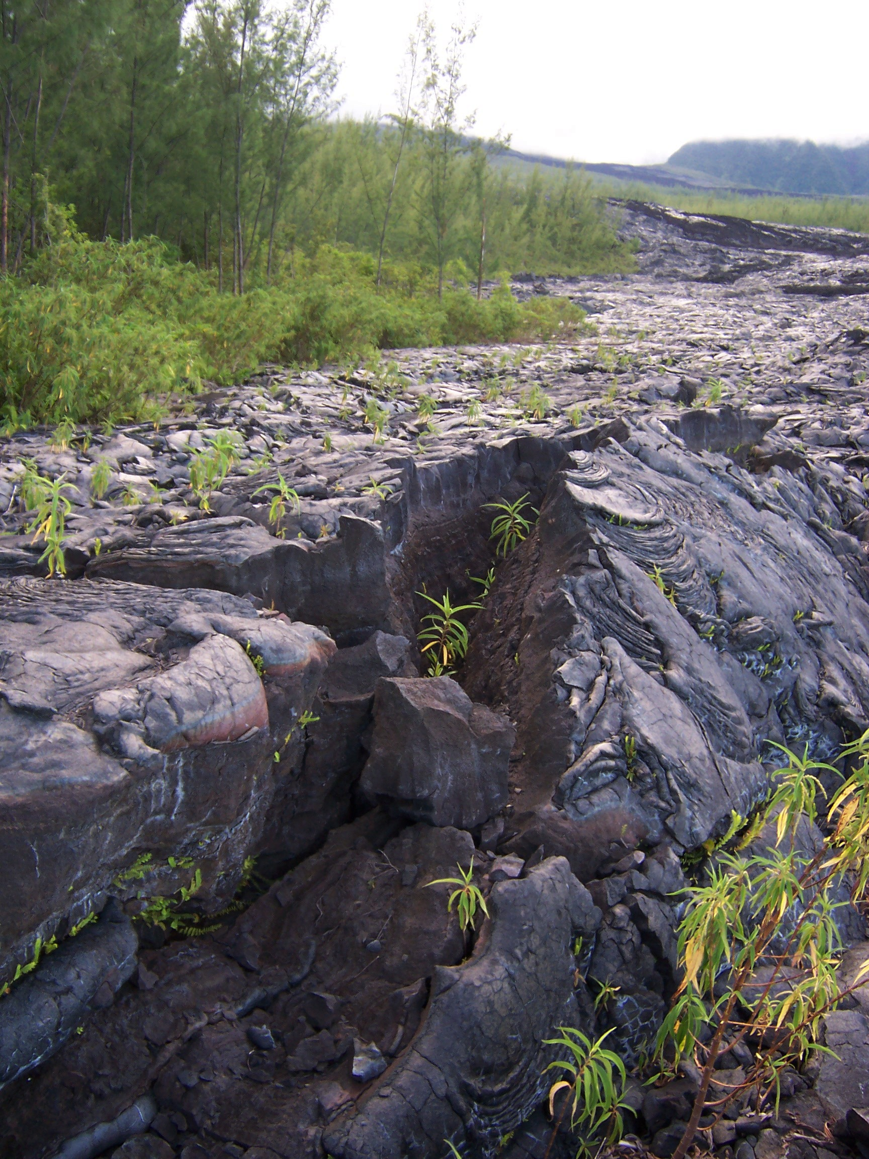 New vegetation growing on a pahoehoe lava flow 3 years old (2004) of the Piton de la Fournaise (Réunion Island).